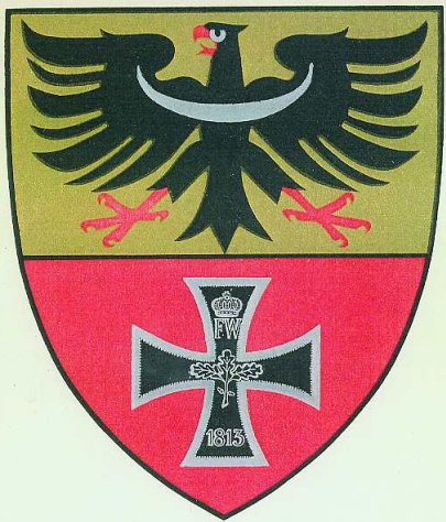 Wrocław's arms under the Third Reich 1938-1945 designed by Hans Schweitzer